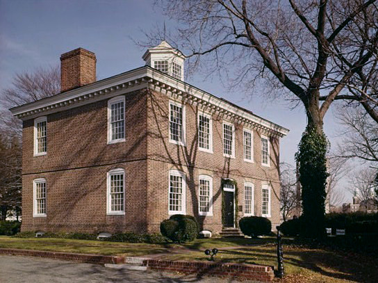 Trent House, 15 Market Street (changed from 539 South Warren Street), Trenton (Mercer County, New Jersey) – (cropped). Historic American Buildings Survey—HABS image.